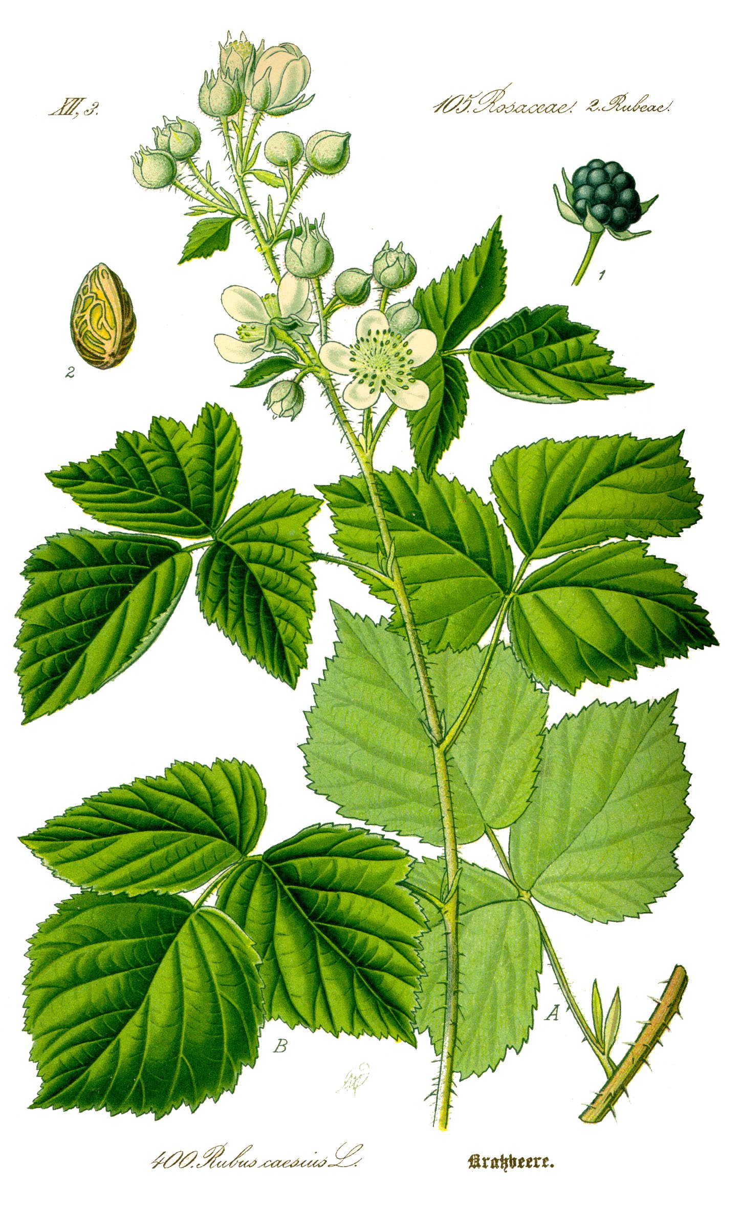 Name Rubus caesius Family Rosaceae